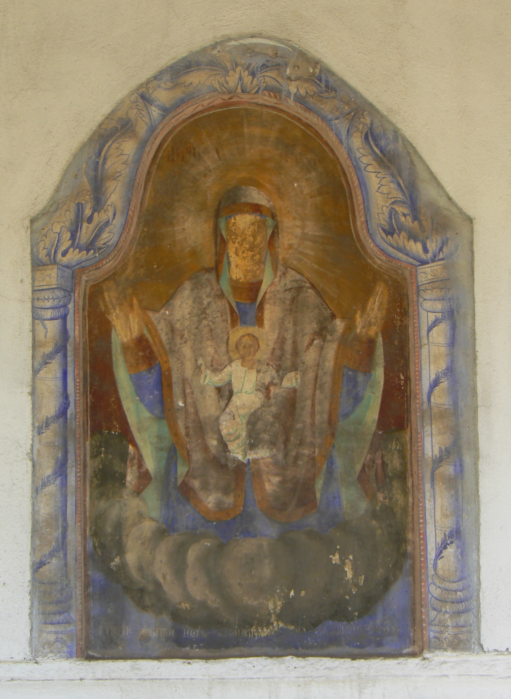 A fresco over the entrance of the church "Saint Dimitar" in village Makotsevo, Bulgaria